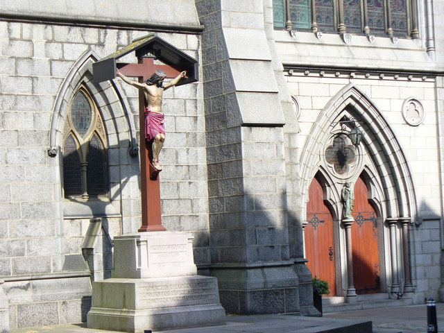 St Mary's R.C. Cathedral, Huntly Street Gothic granite structure designed by Alexander Ellis (1860). Robert Wilson, his business partner, added the spire in 1877.